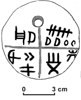 Neolithic clay amulet (retouched). The "v" shaped sign is missing from the upper left quarter. Part of the Tărtăria tablets set, dated to 5500-5300 BC and associated with the Turdaş-Vinča culture. The Vinča symbols on it predate the proto-Sumerian pictographic script. Discovered in 1961 at Tărtăria, Alba County, Romania by the archaeologist Nicolae Vlassa.